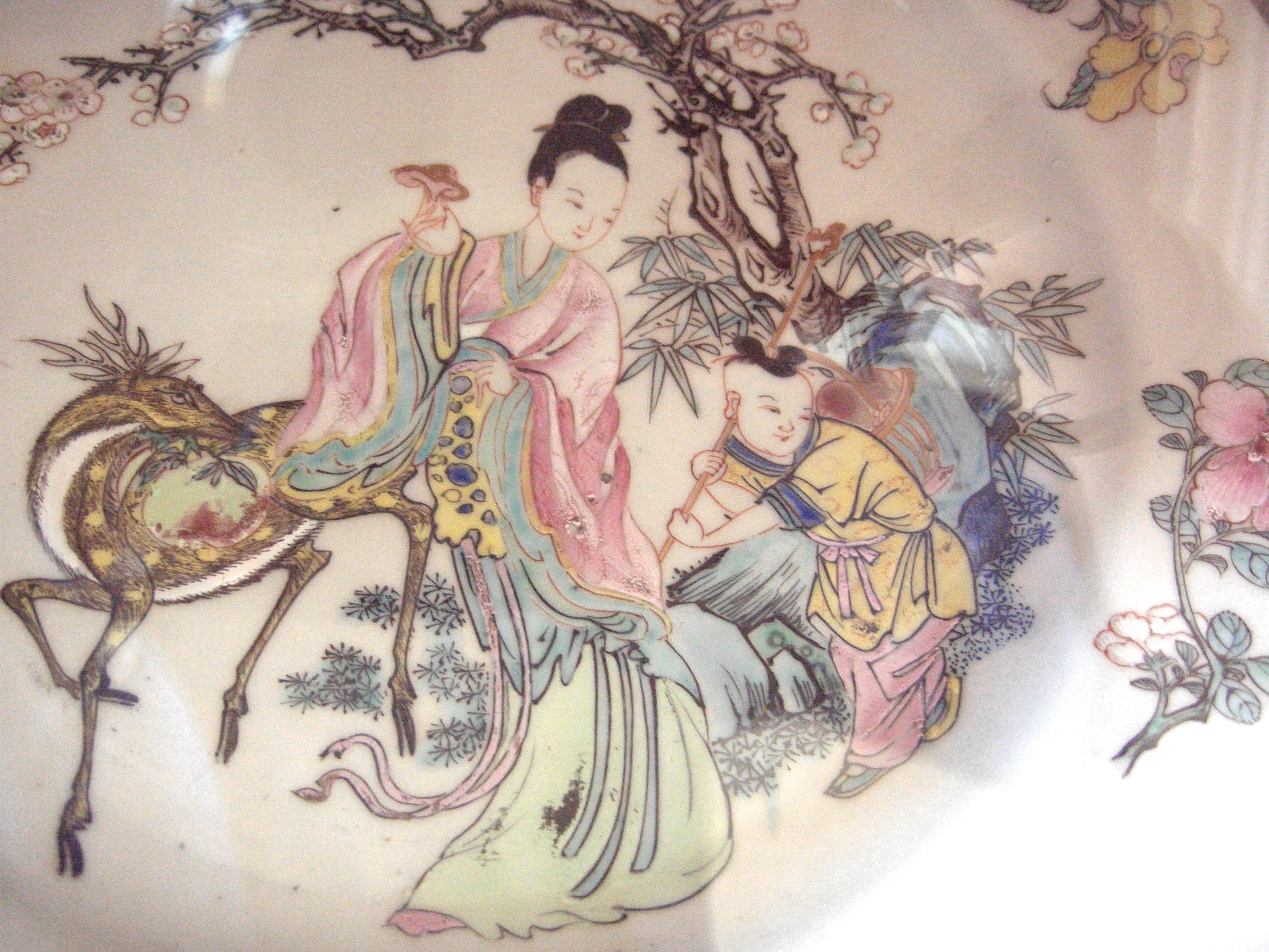 Xi Wang Mu ("Godmother of the West"), a daoist deity Decor on a Qing dynasty porcelain plate, famille-rose-style, Yongzheng period, approx. 1725, Displayed in the Porcelain collections of Dresden Zwinger Date: 25 July 2006